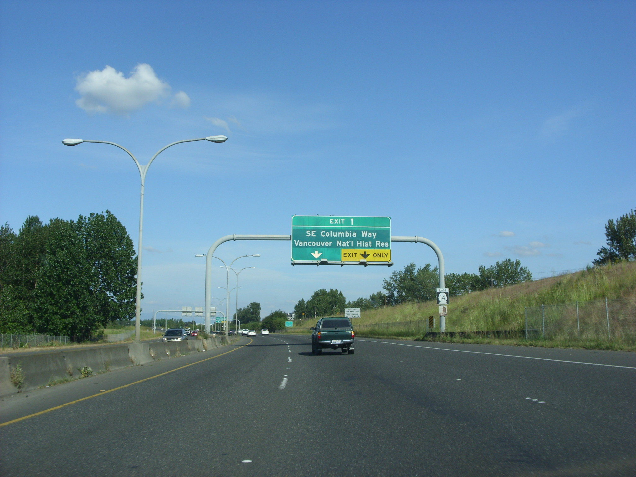 Washington State Route 14 eastbound approaching its first freeway exit in Vancouver, Washington.